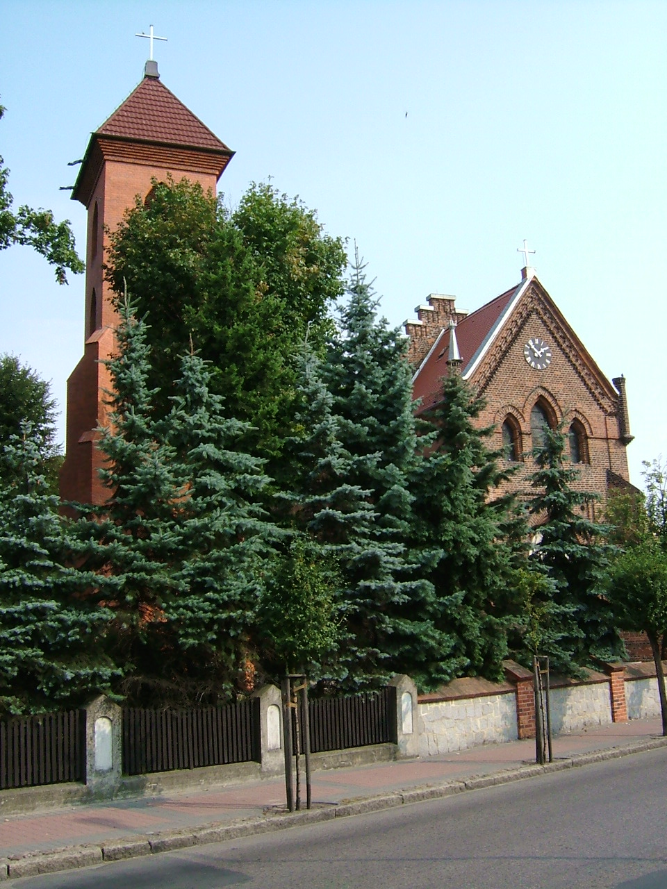 St. Matthew church in Opalenica